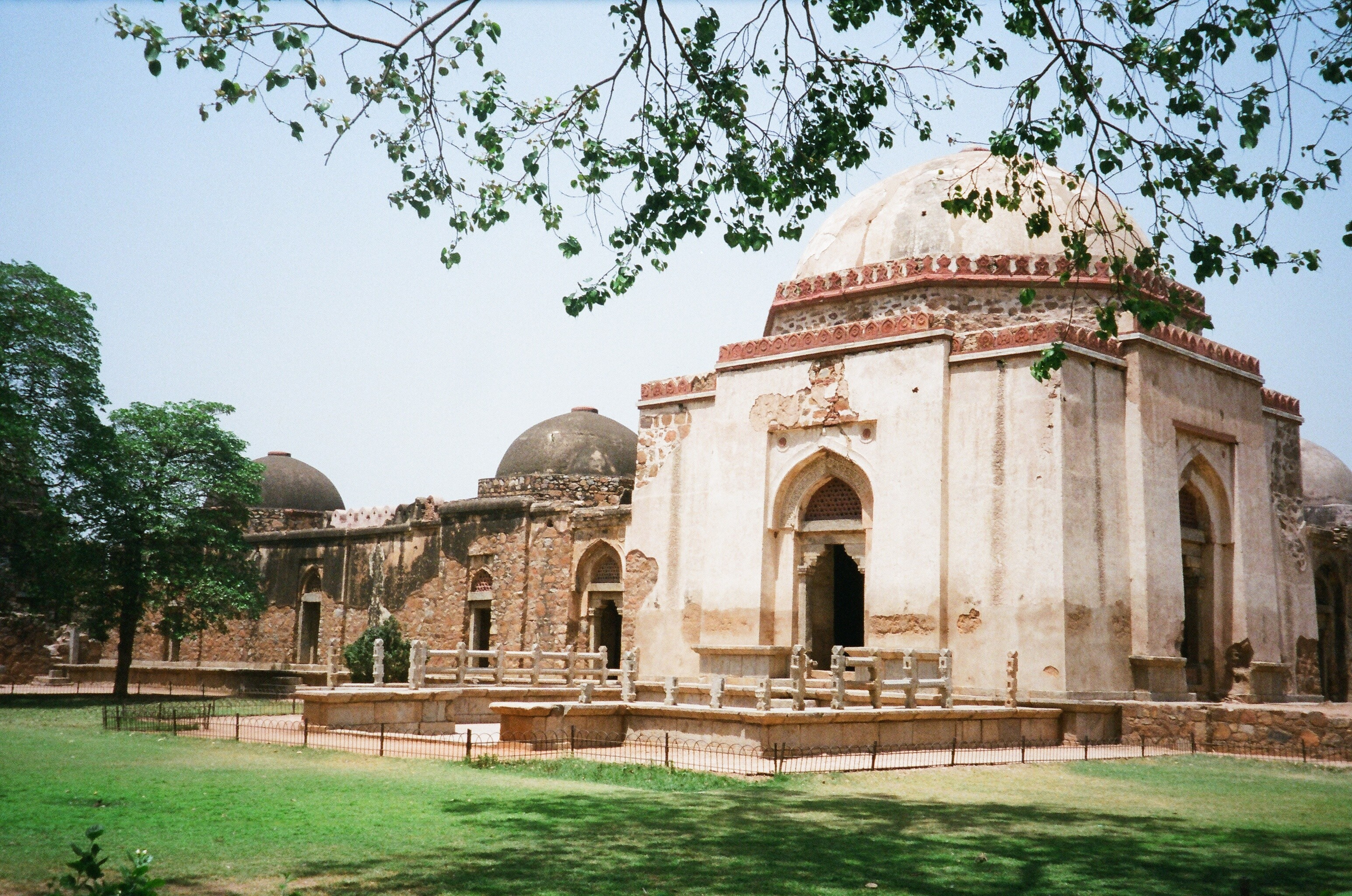 Firuz Shah Tughlaq's tomb with adjoining Madrasa, in Hauz Khas Complex, Delhi